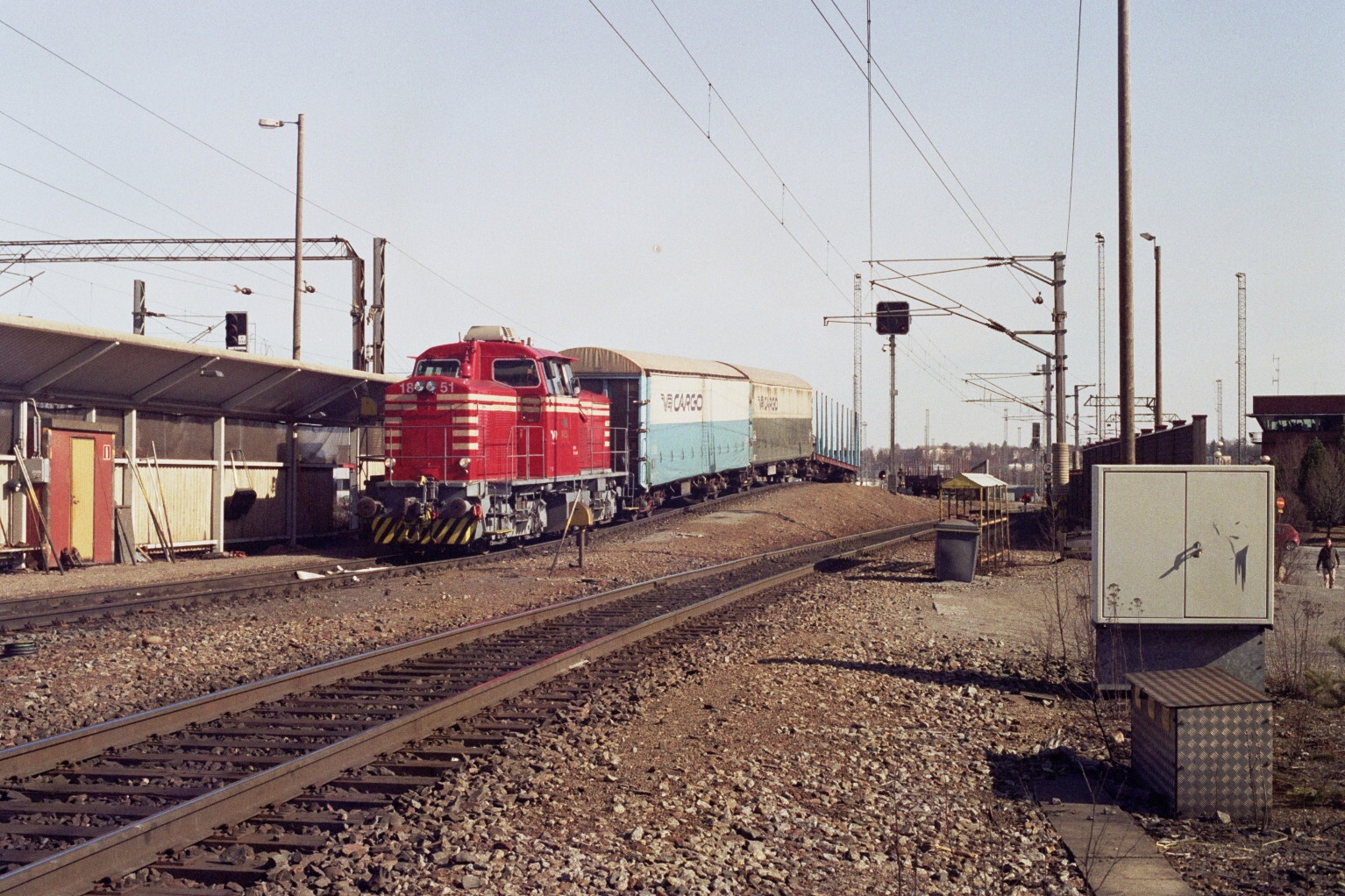 A diesel locomotive, VR class Dr14, number 1851, in the Perkiö/Viinikka railyard at the city of Tampere in Finland. The locomotive is pushing wagons over a railway hump.